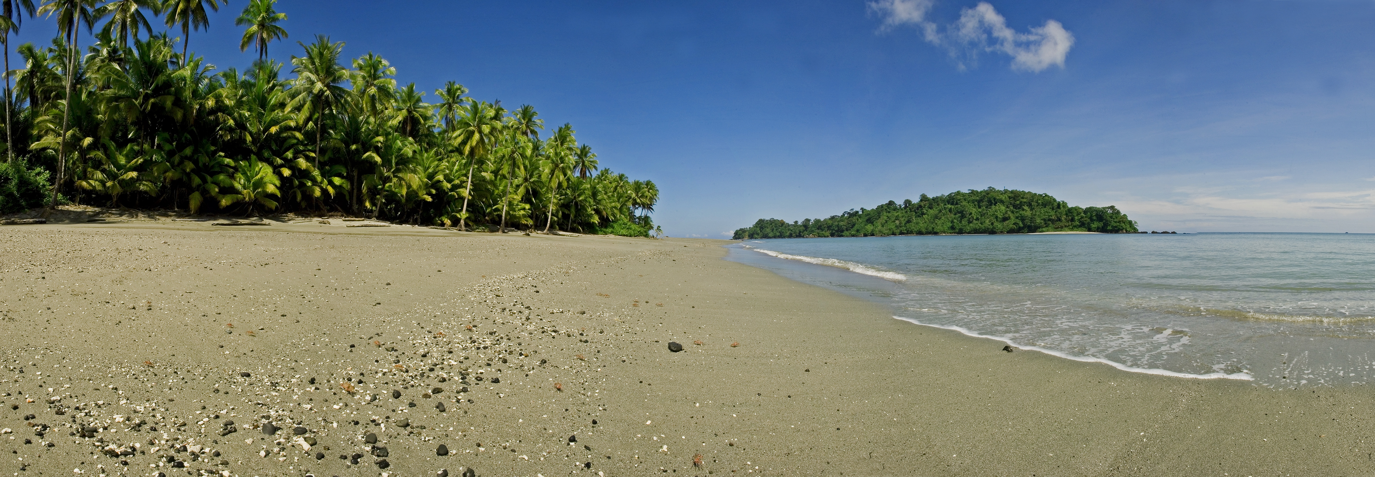 Gorgona's beach